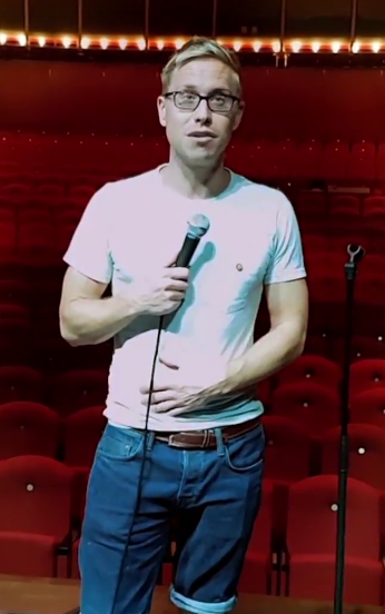 Russell Howard advertises his upcoming performance at the QPAC Theatre in Brisbane.